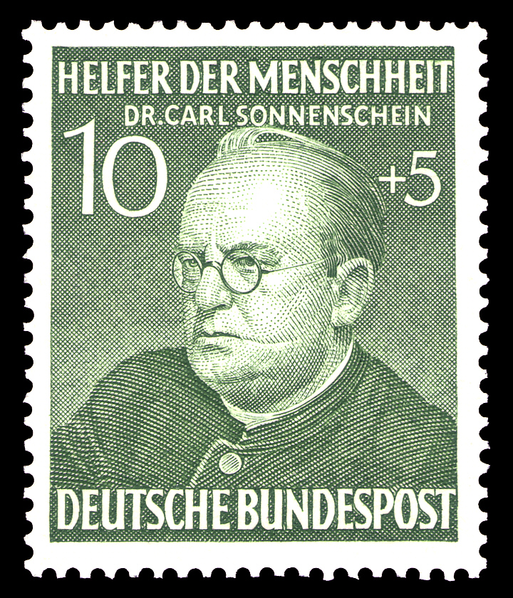 Social welfare stamp series 1952, Carl Sonnenschein (1876-1929) Graphics by Schnell Ausgabepreis: 10+5 Pfennig First Day of Issue / Erstausgabetag: 1. Oktober 1952 Michel-Katalog-Nr: 157